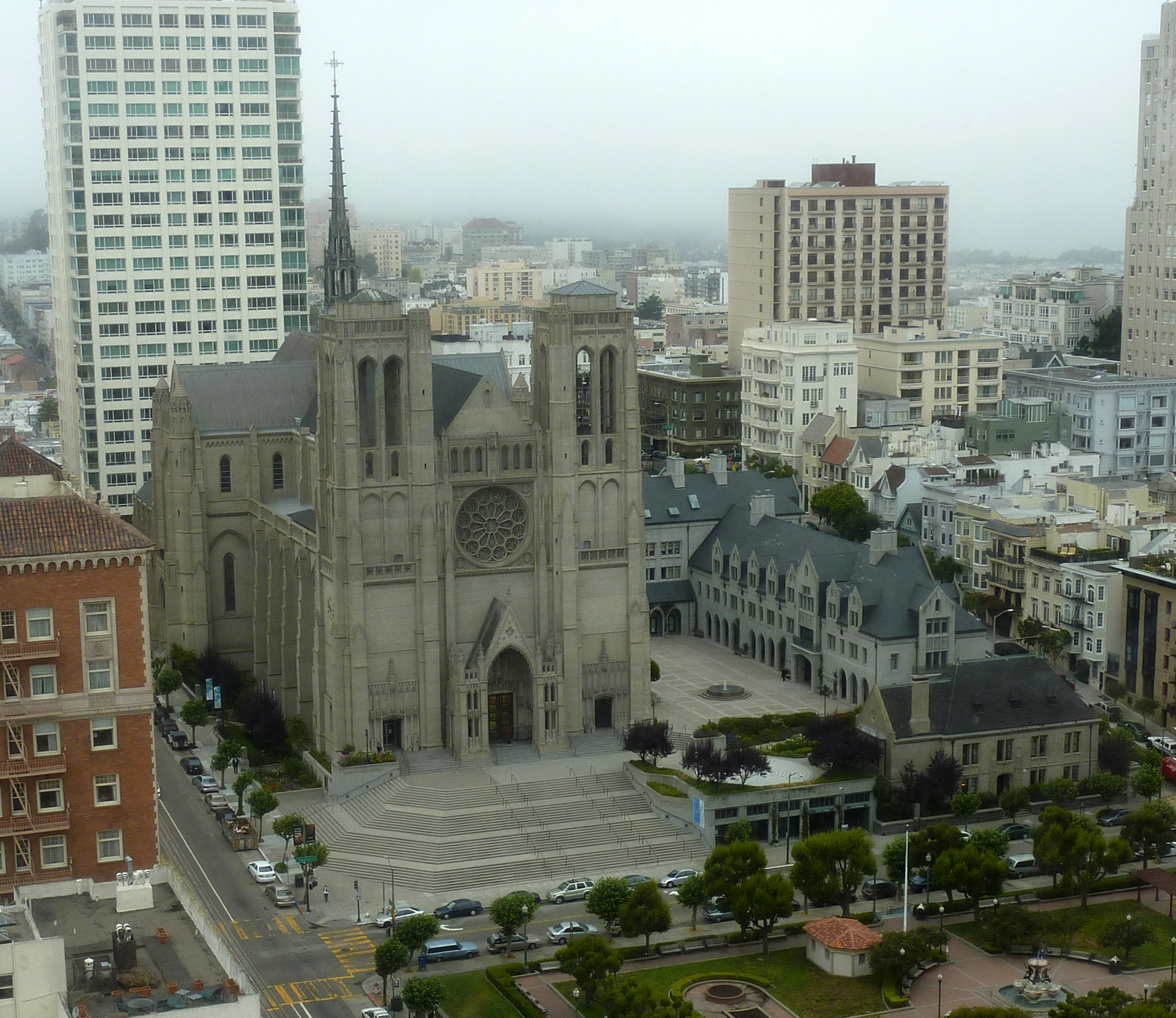 The Grace Cathedral and attached buildings of the Episcopal Diocese of California, San Francisco, California, USA.